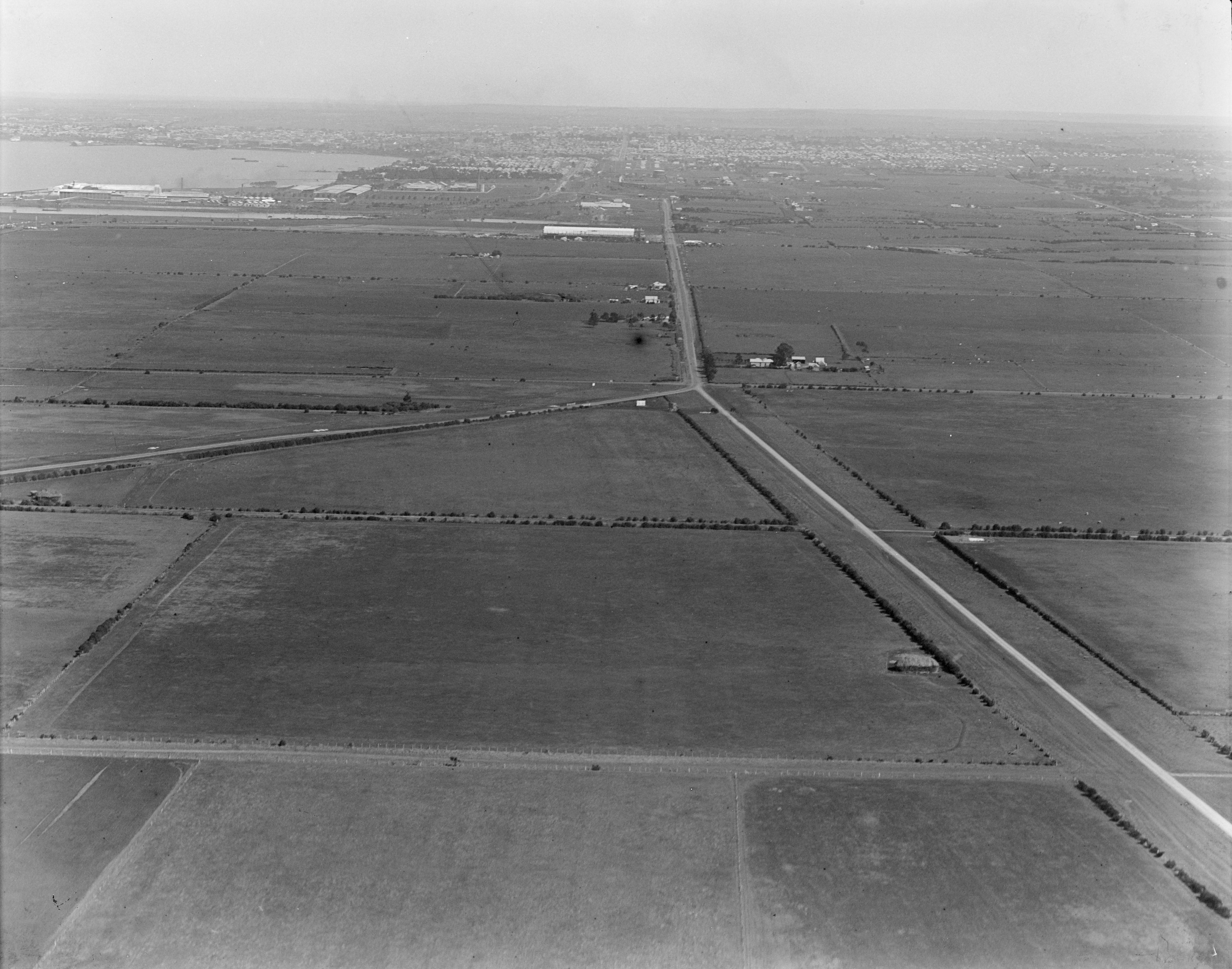 View of Norlane, looking towards the City of Geelong, as it looked in 1925.